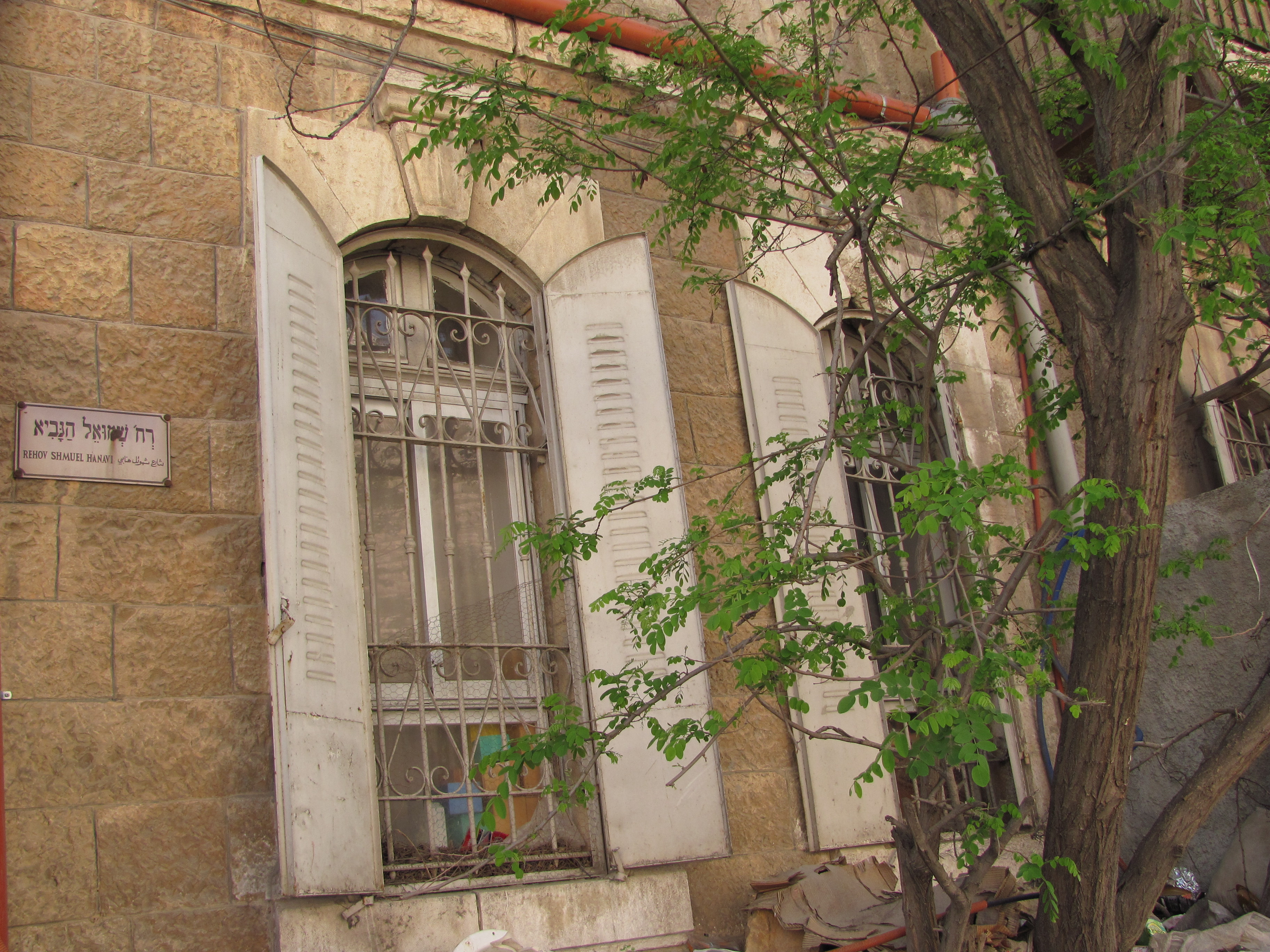 Street sign for Shmuel HaNavi Street, Jerusalem, on an old house.